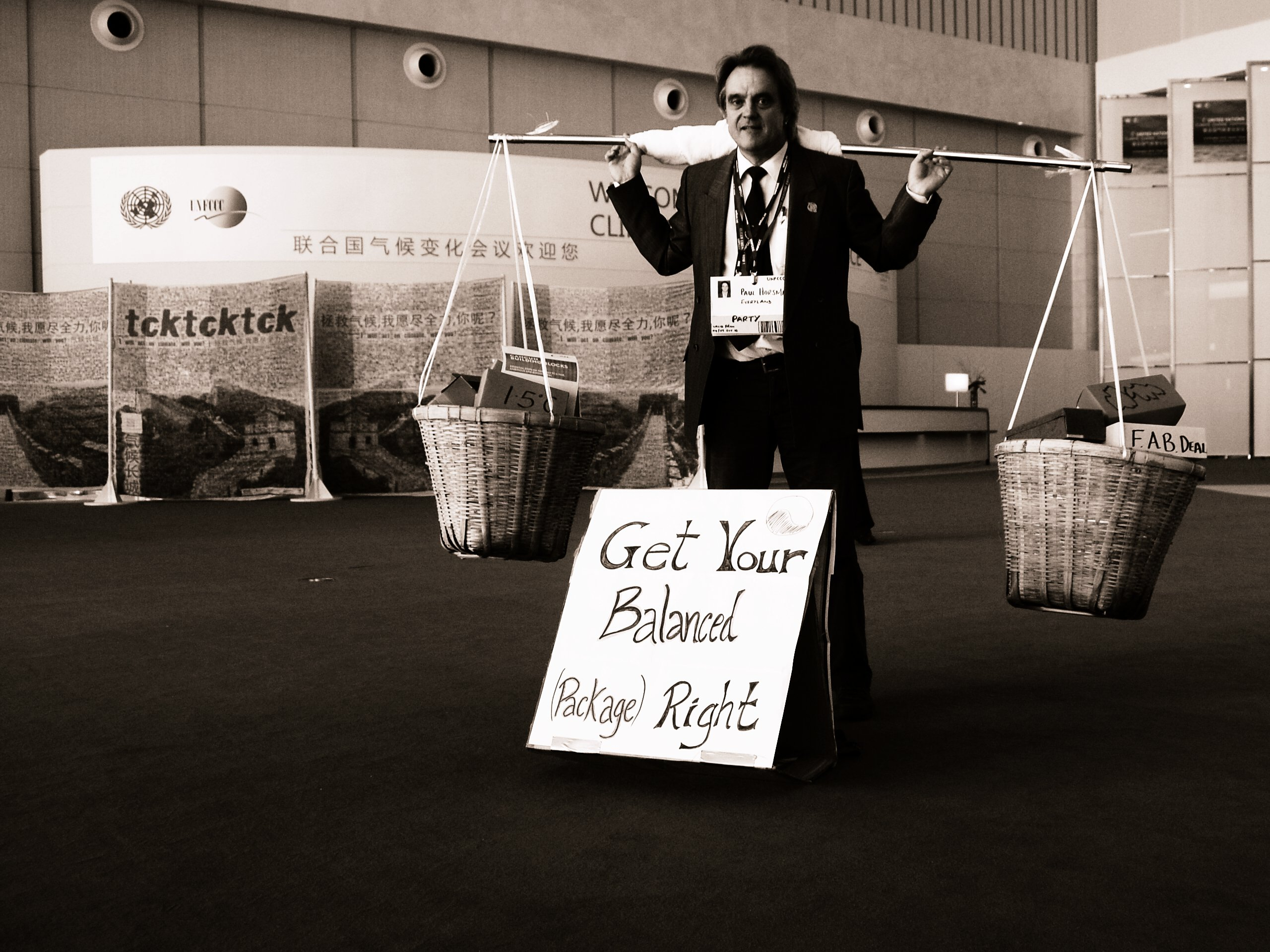 October 2010